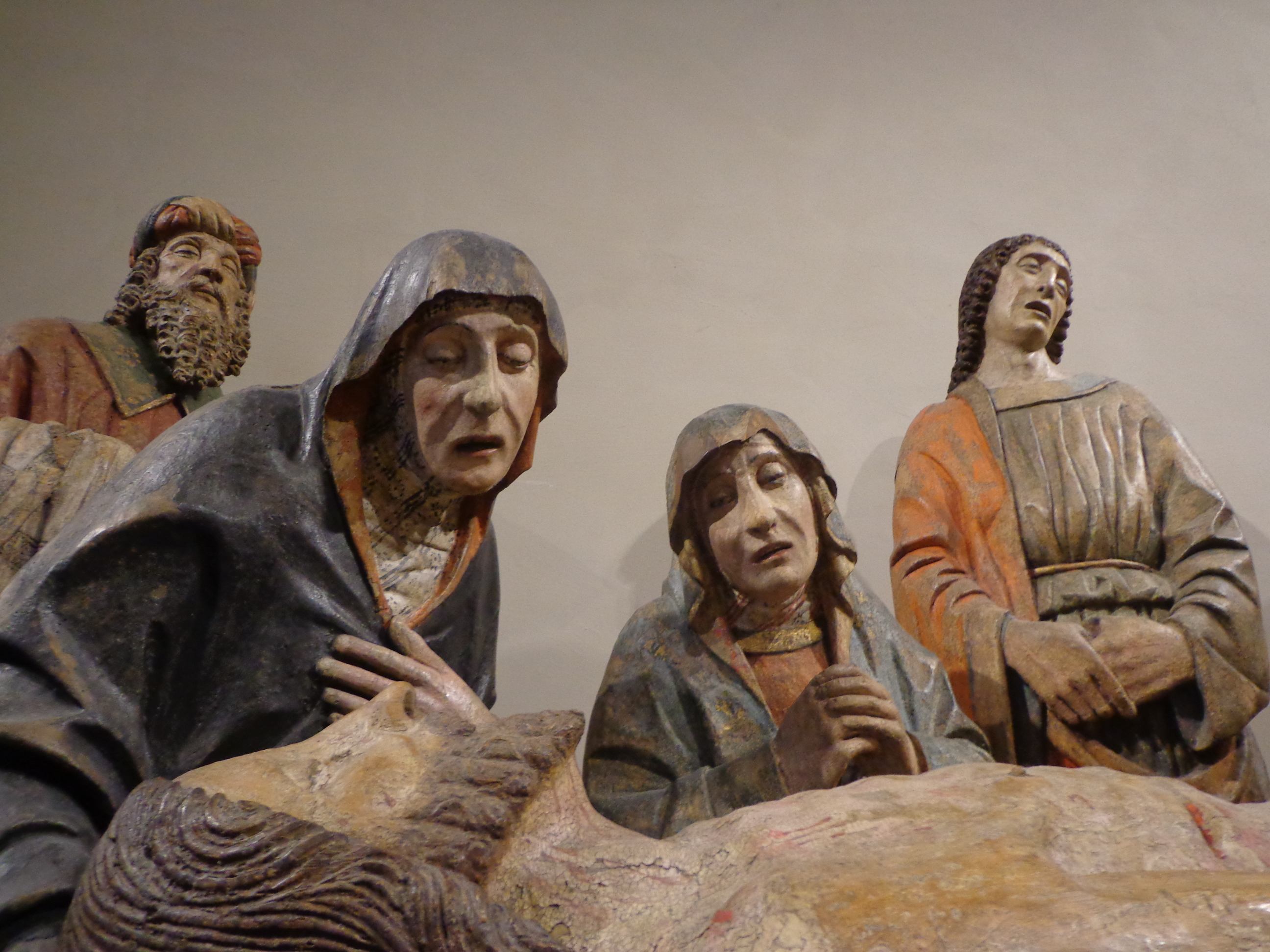 A few pictures taken in Turin, Italy, July 2014